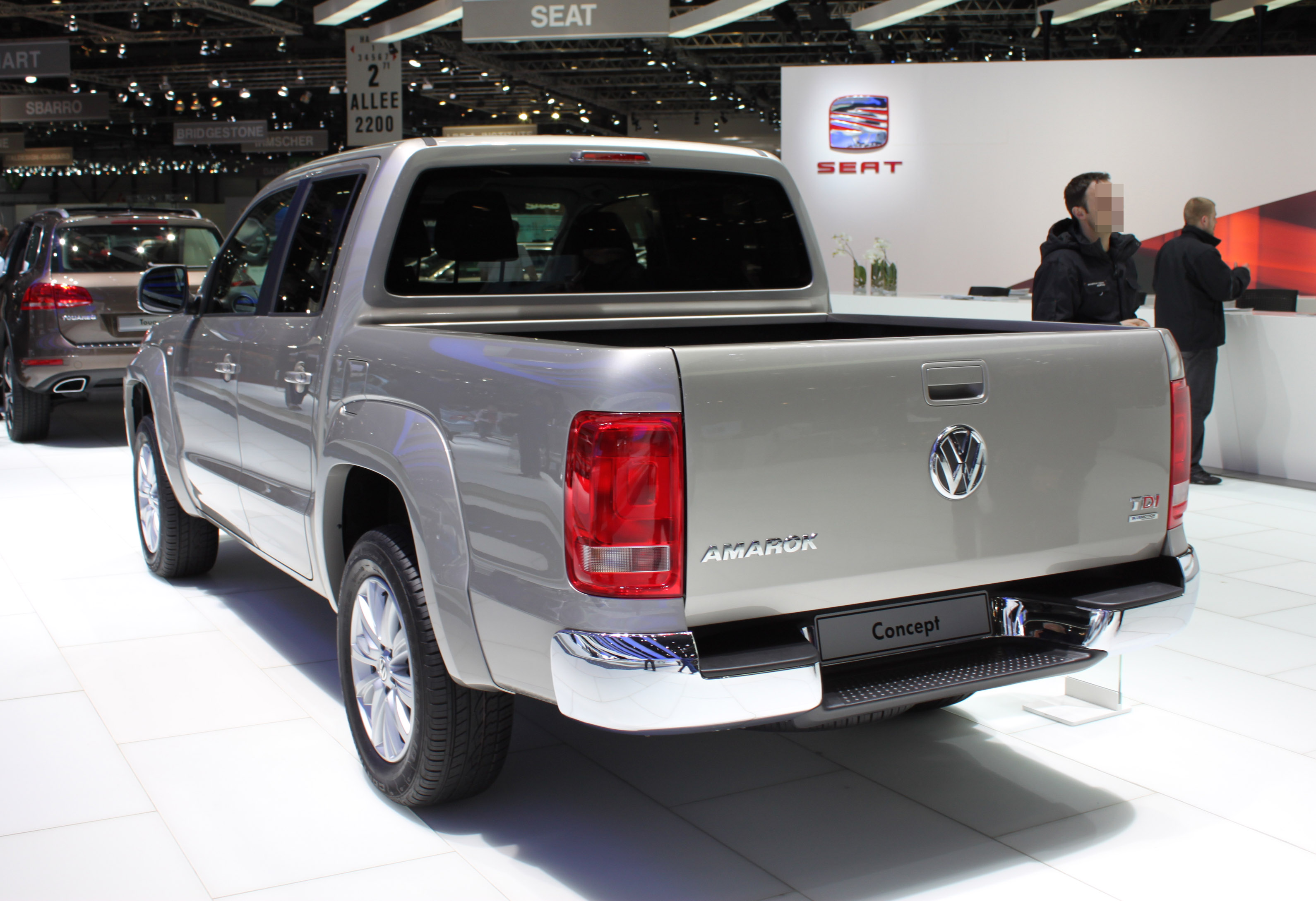 VW Amarok at the 2010 Geneva Motor Show